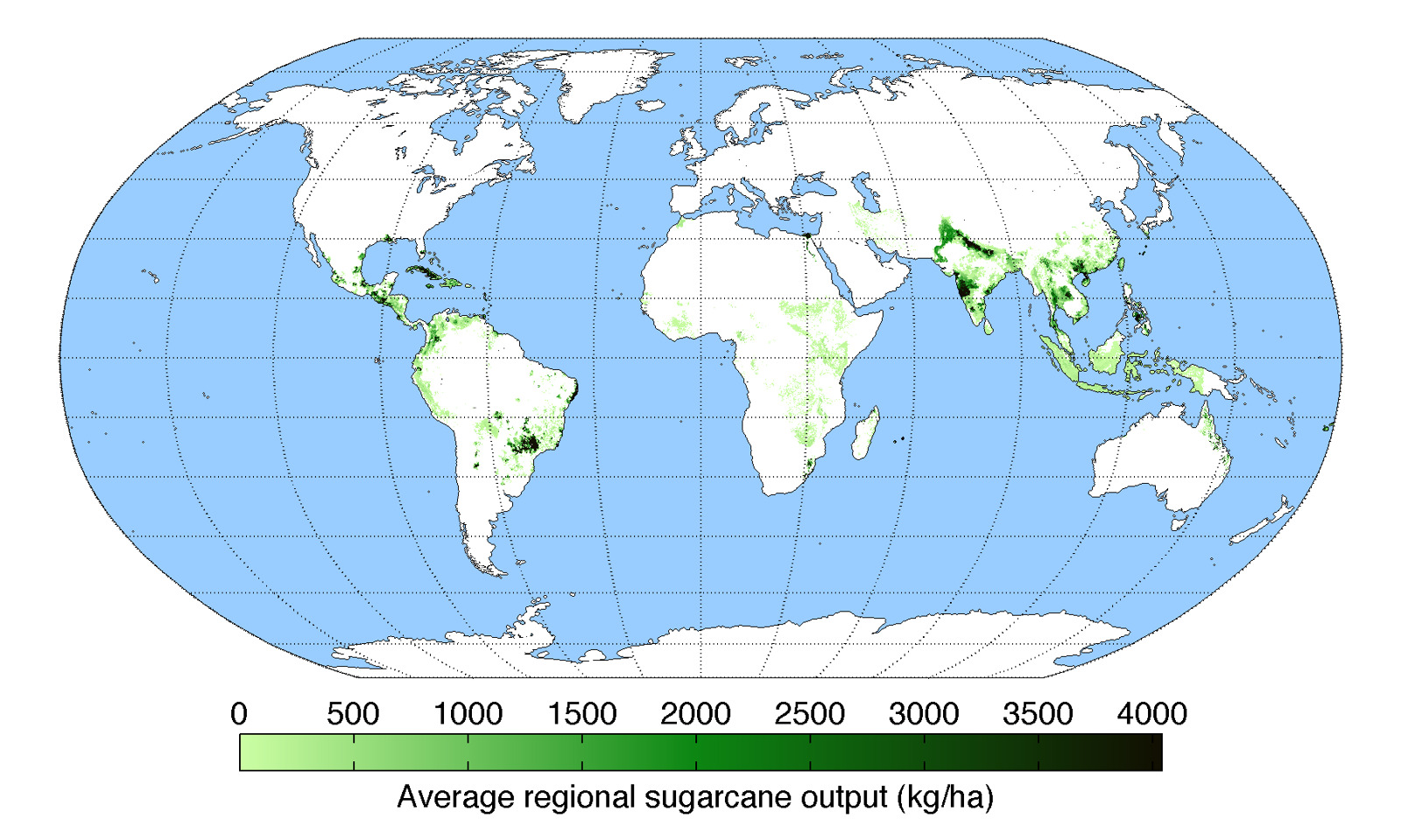 Map of sugarcane production (average percentage of land used for its production times average yield in each grid cell) across the world compiled by the University of Minnesota Institute on the Environment with data from: Monfreda, C., N. Ramankutty, and J.A. Foley. 2008. Farming the planet: 2. Geographic distribution of crop areas, yields, physiological types, and net primary production in the year 2000. Global Biogeochemical Cycles 22: GB1022